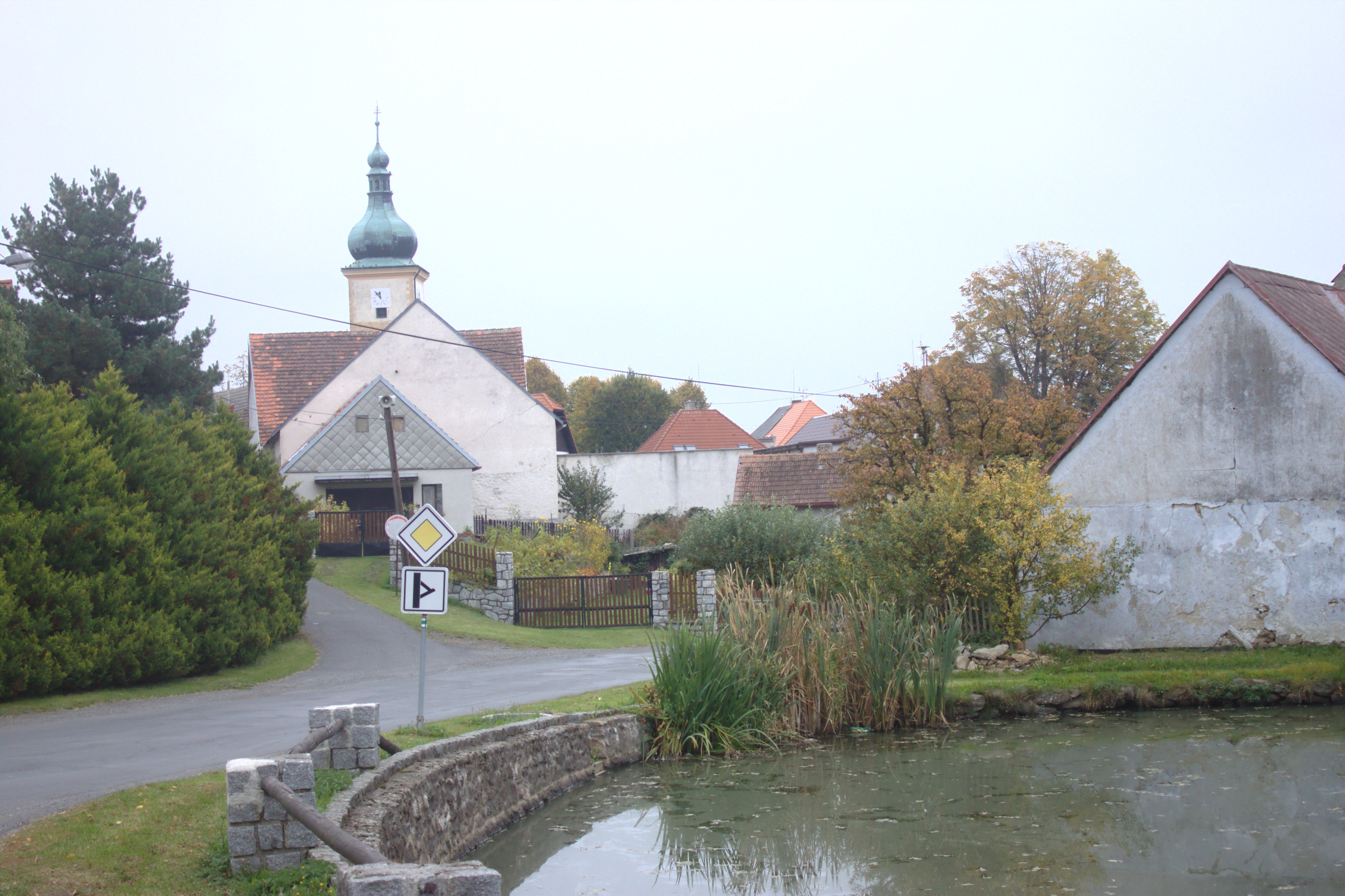 A road in the village of Myslív, Plzeň Region, CZ